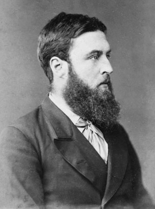 Portrait of John Cathcart Wason circa 1878, Member of Parliament for Coleridge at the time